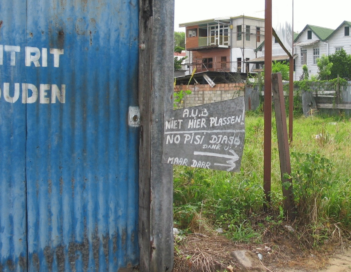 Directions concerning urinating, Suriname